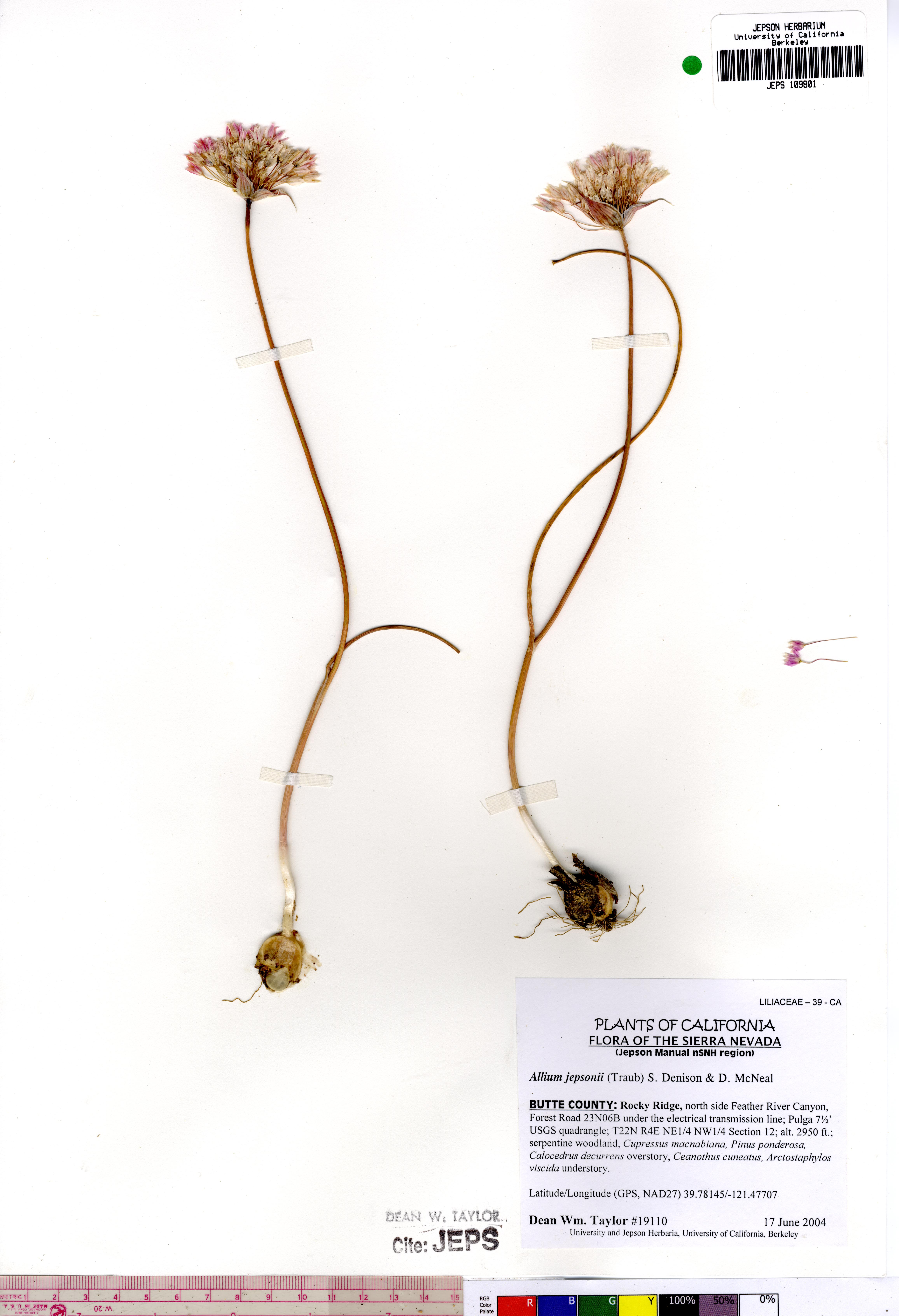 Allium jepsonii herbarium specimen